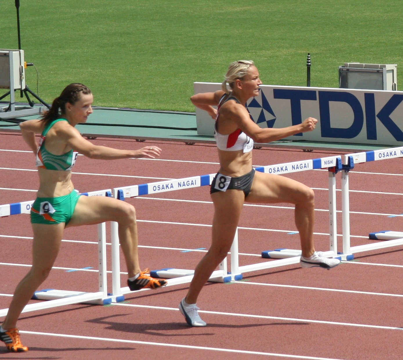 World Athletics Championships 2007 in Osaka - German athlete Ulrike Urbansky and Irish runner Michelle Carey during a first round 400 metres hurdles race